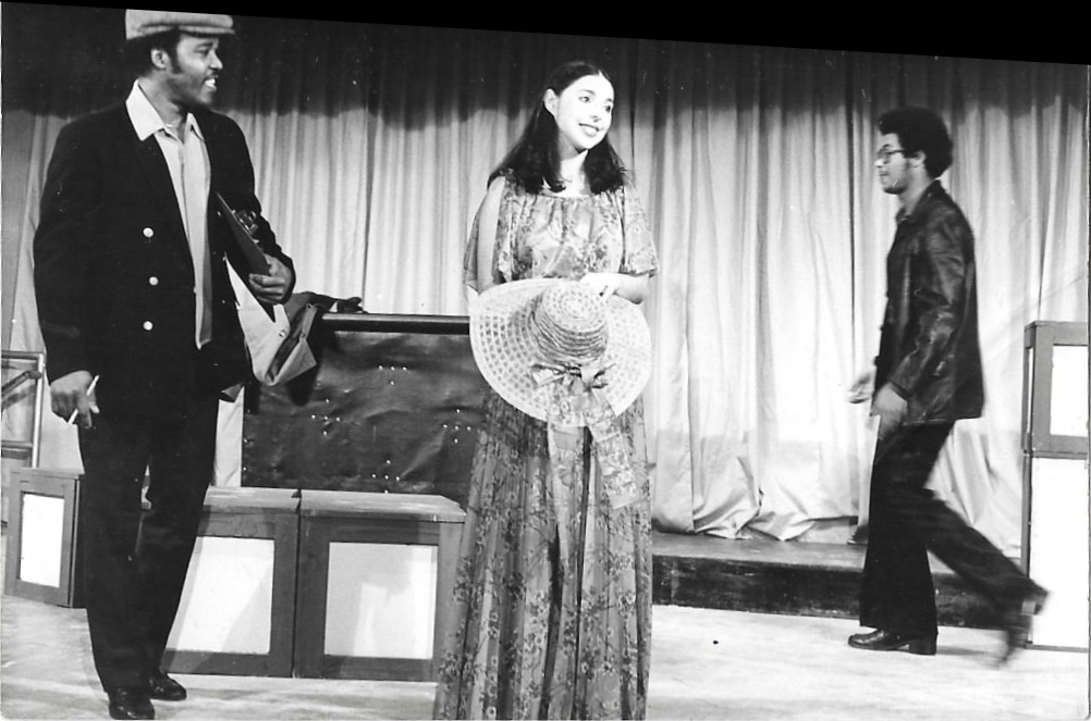 my off Broadway performance